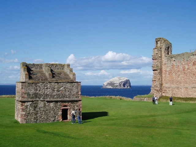 Tantallon Castle Doocot with Bass Rock beyond. View from the grounds of Tantallon Castle, which sits on a 30m high cliff. The castle and doocot are now in the care of Historic Scotland.